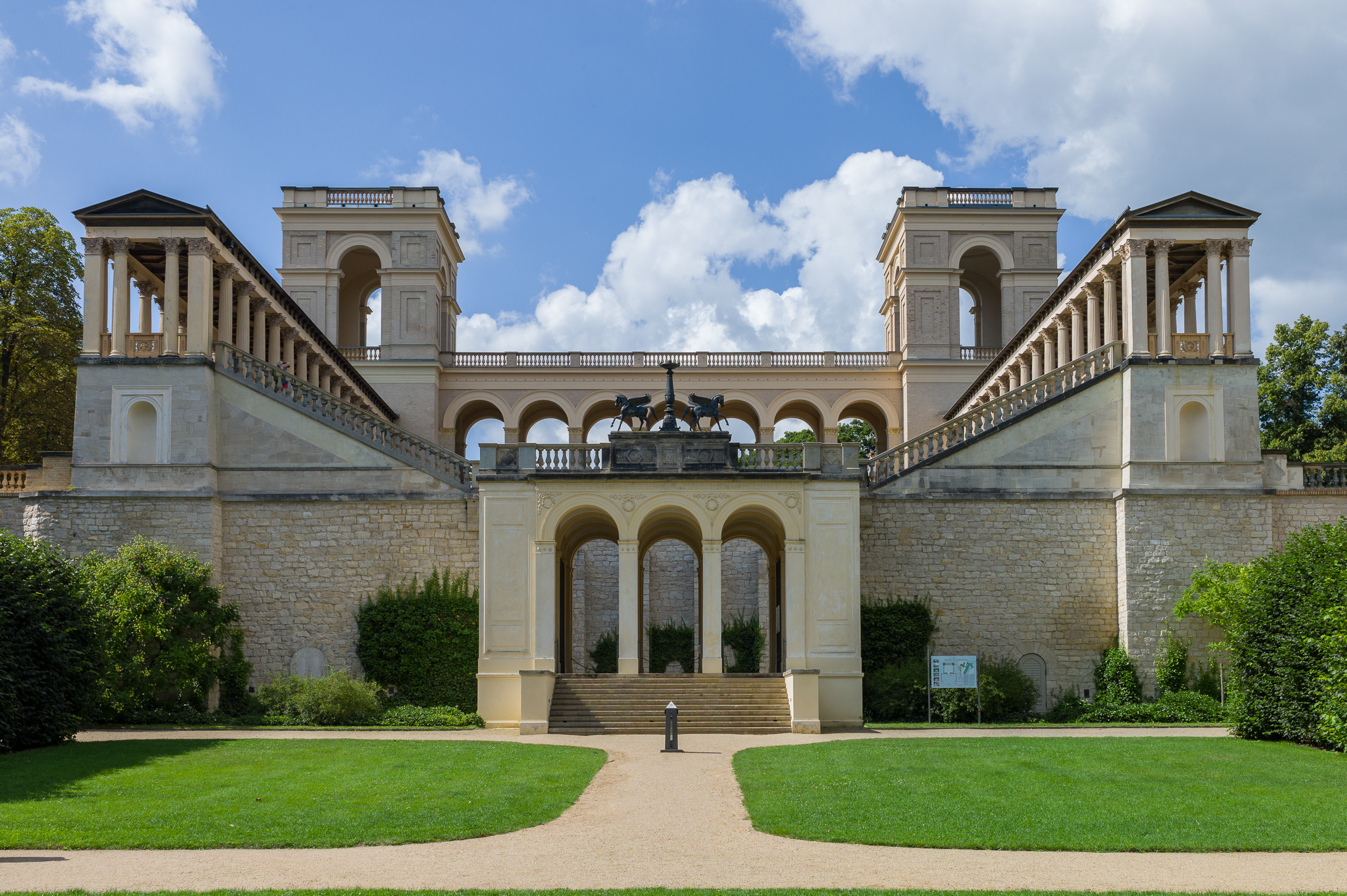 Belvedere palace on top of the Pfingstberg in Potsdam, Germany